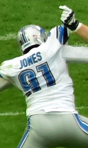 Detroit Lions vs Atlanta Falcons - Wembley 2014